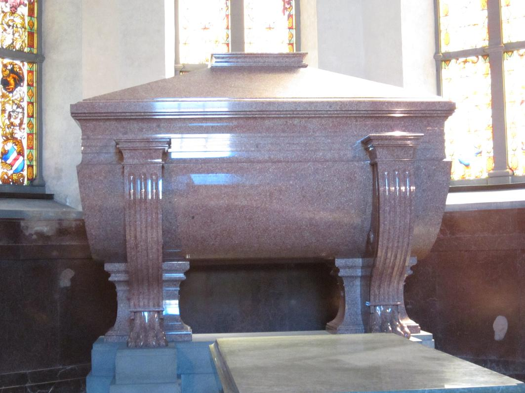 Grave of King Carl XIV John of Sweden (1763-1844) Carl III John of Norway on the ground floor of the Bernadottean Chapel at Riddarholm ChurchPlace: Stockholm, Sweden